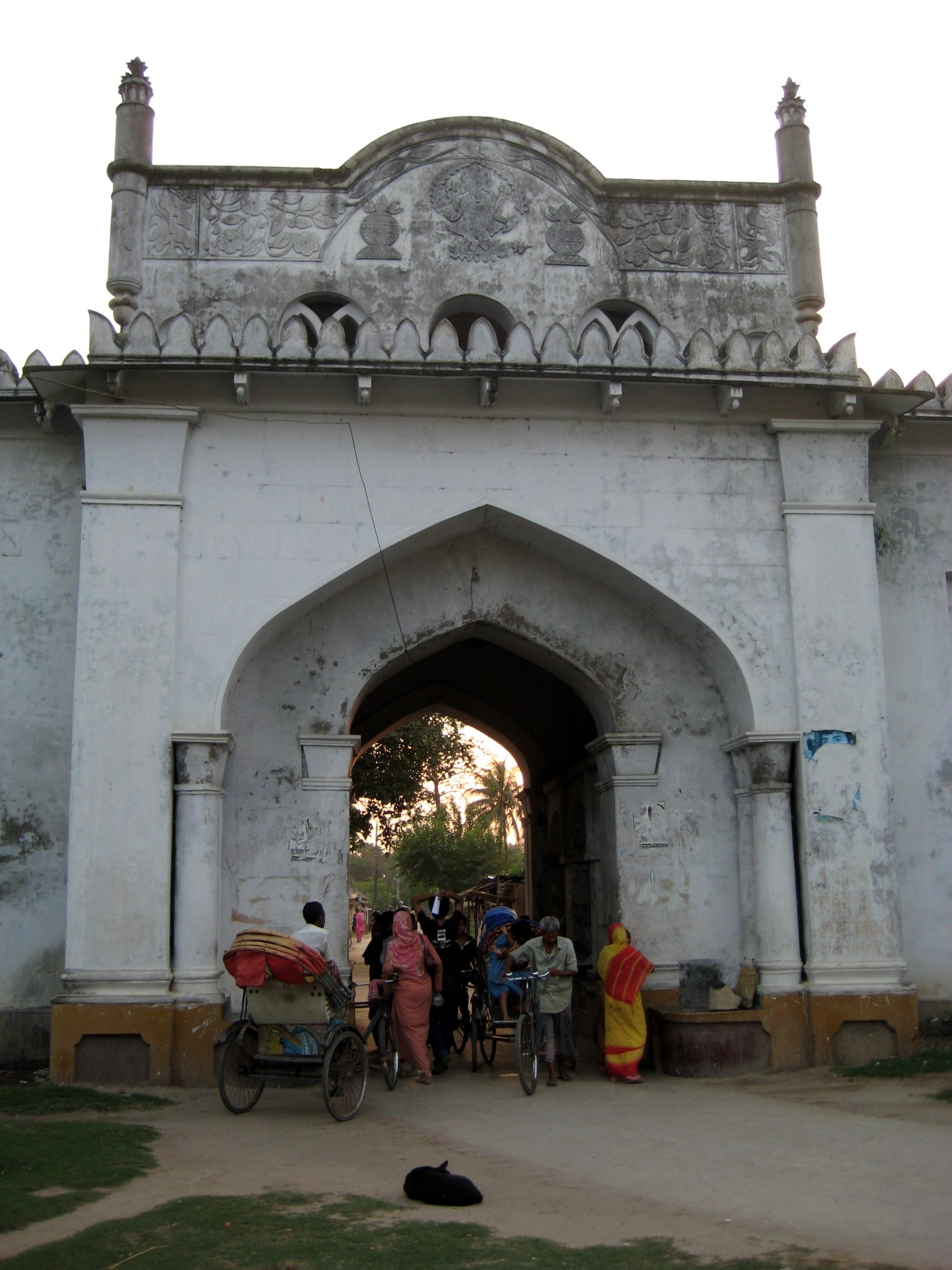 Tales of history says that Raja Dinaj or Dinaraj is the founder of the Dinajpur Rajbari. But others say that after usurping the Ilyas Shahi rule, the famous Raja Ganesh of the early 15th century was the real founder of this house . At the end of the 17th century Srimanta Dutta Chaudhury became the zamindar of Dinajpur and after him, his sister's son Sukhdeva Ghosh inherited the property as Srimanta's son had a premature death.